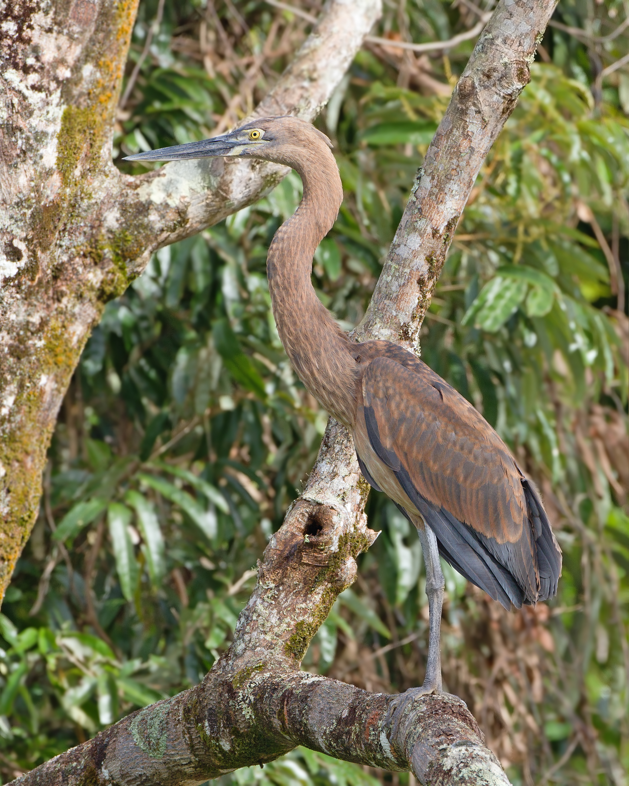 A juvenile Great-billed Heron at Daintree River, Queensland, Australia.